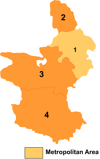 Map of Huangnan in Qinghai province.